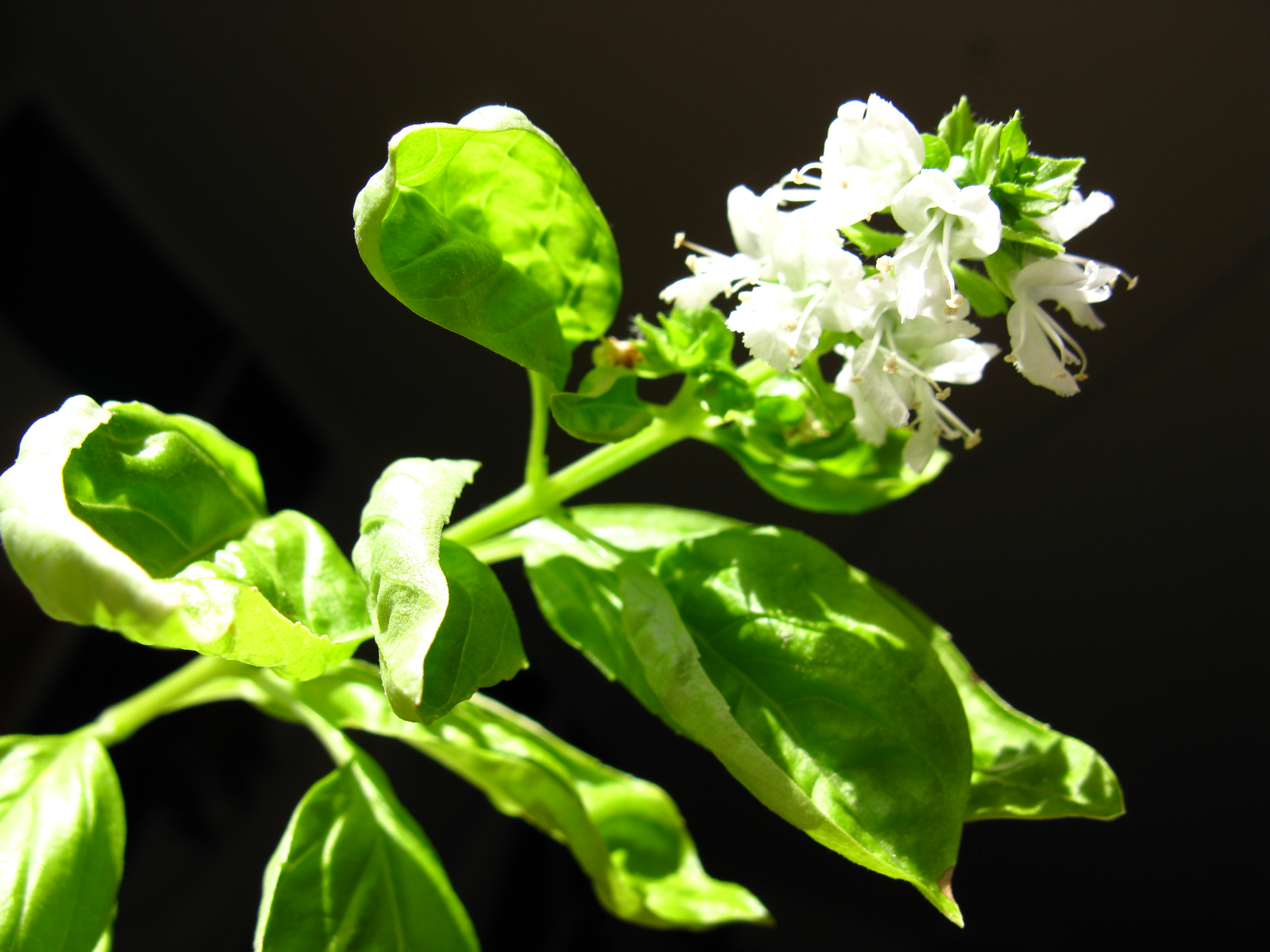 Basil (Ocimum basilicum), purchased in Altoona, Pennsylvania, and grown in Laurel, Maryland.